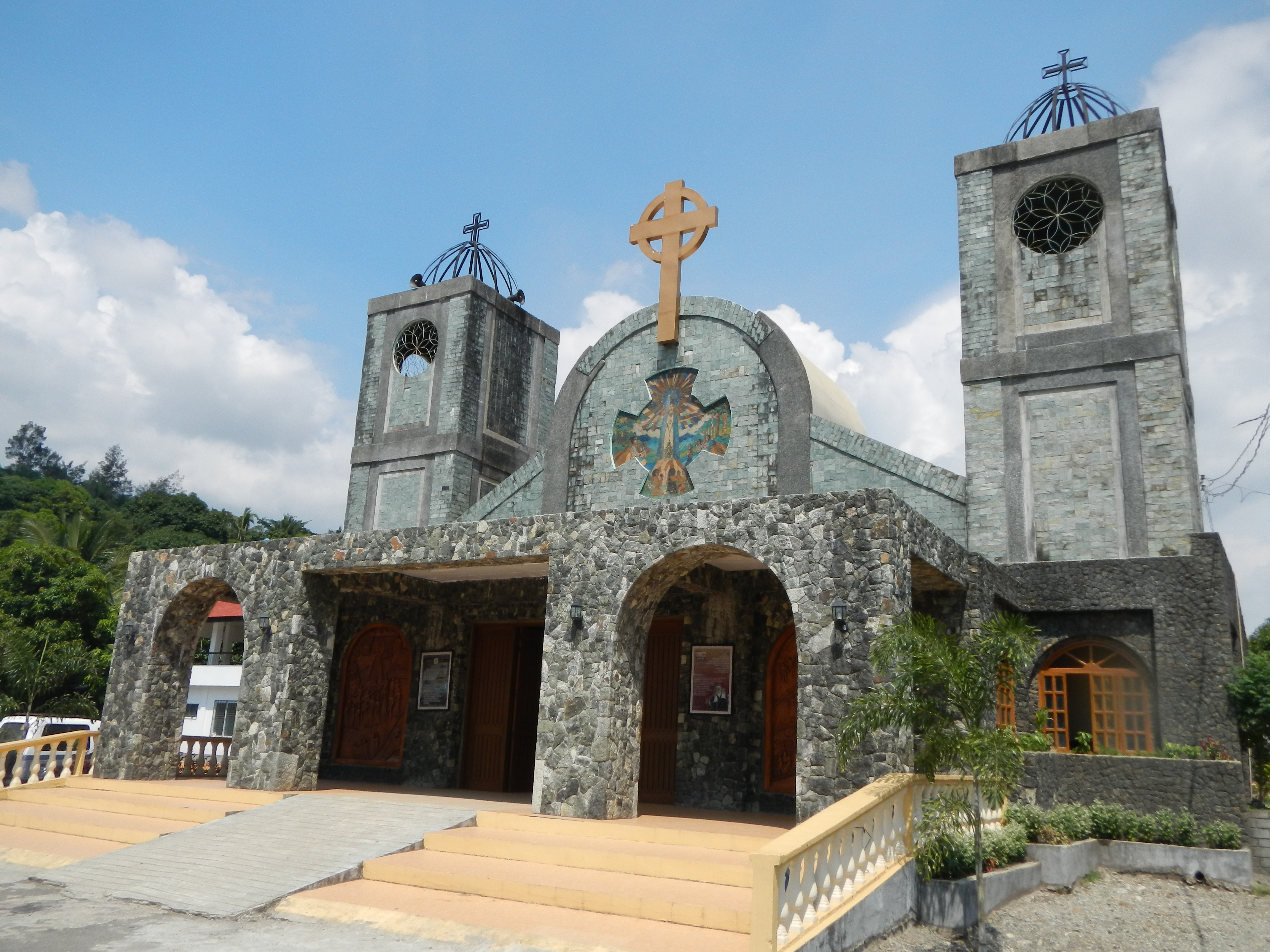 Photos of landmarks and heritage churches, icons of ---a) National Shrine of Ina Poon Bato of Botolan[1] Loob-bunga Resettlement , Botolan, Zambales and b) Botolan, Zambales - Philippine Independent Church[2] (officially